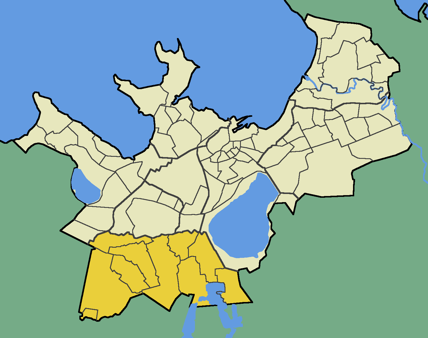 Map of Tallinn (Estonia) with borders of the quarters, Nõmme district emphasised